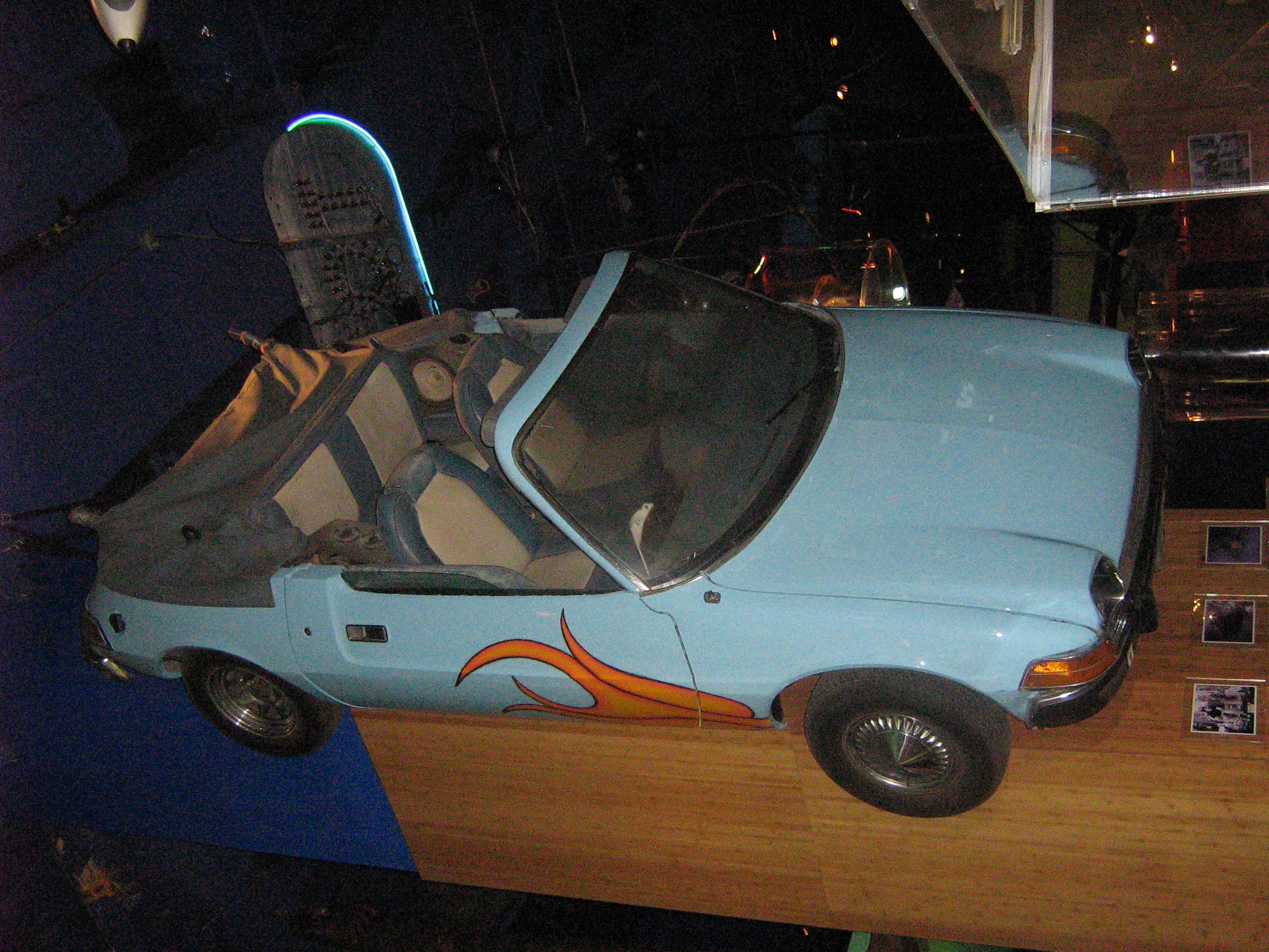 Wayne's World AMC Pacer at Planet Hollywood in New York City